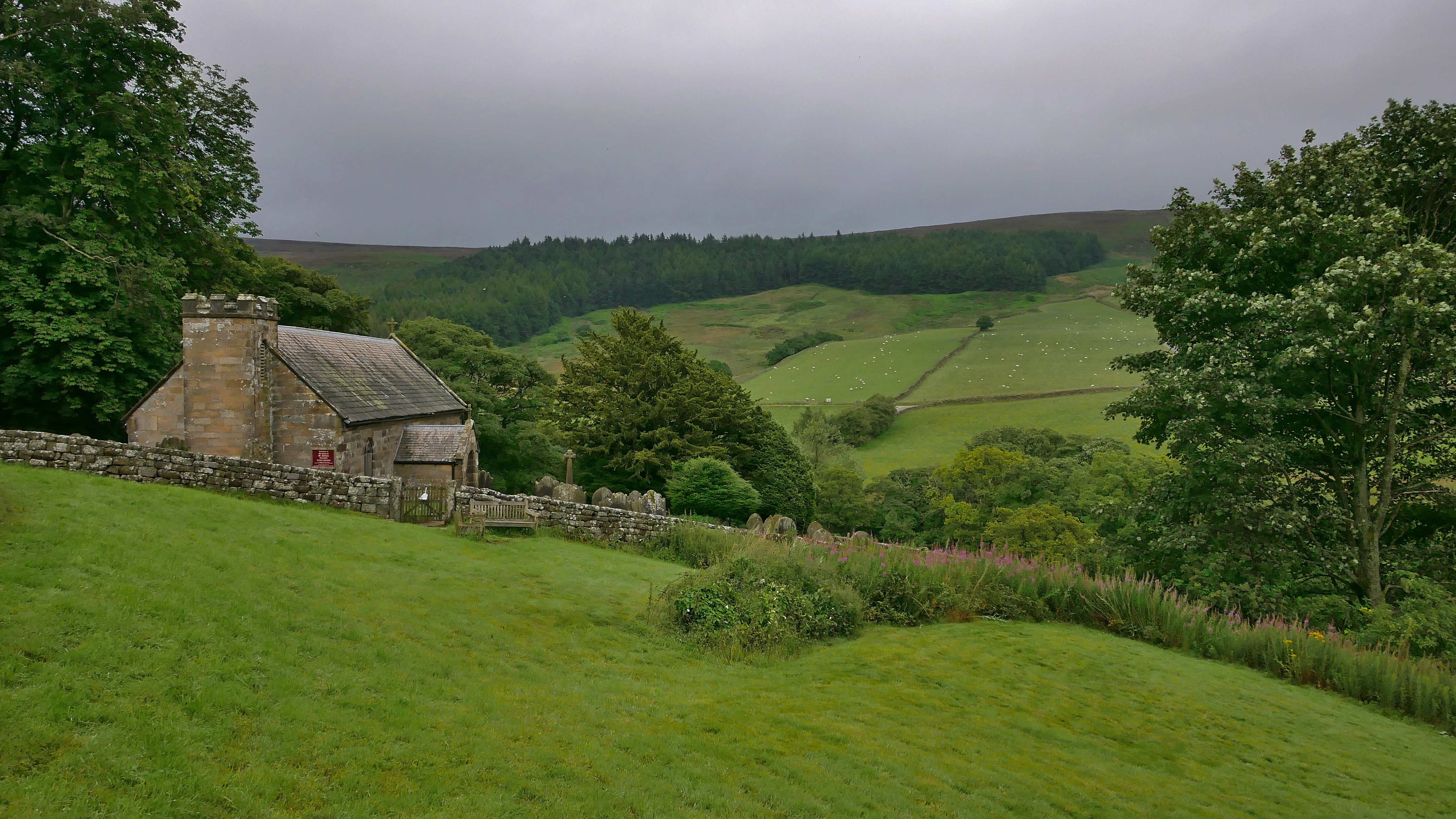 St Nicholas church, Bransdale, Norh Yorkshire Moors